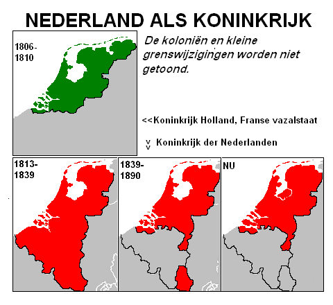 Comparison of the frontiers of the Kingdom of the Netherlands at various stages in history